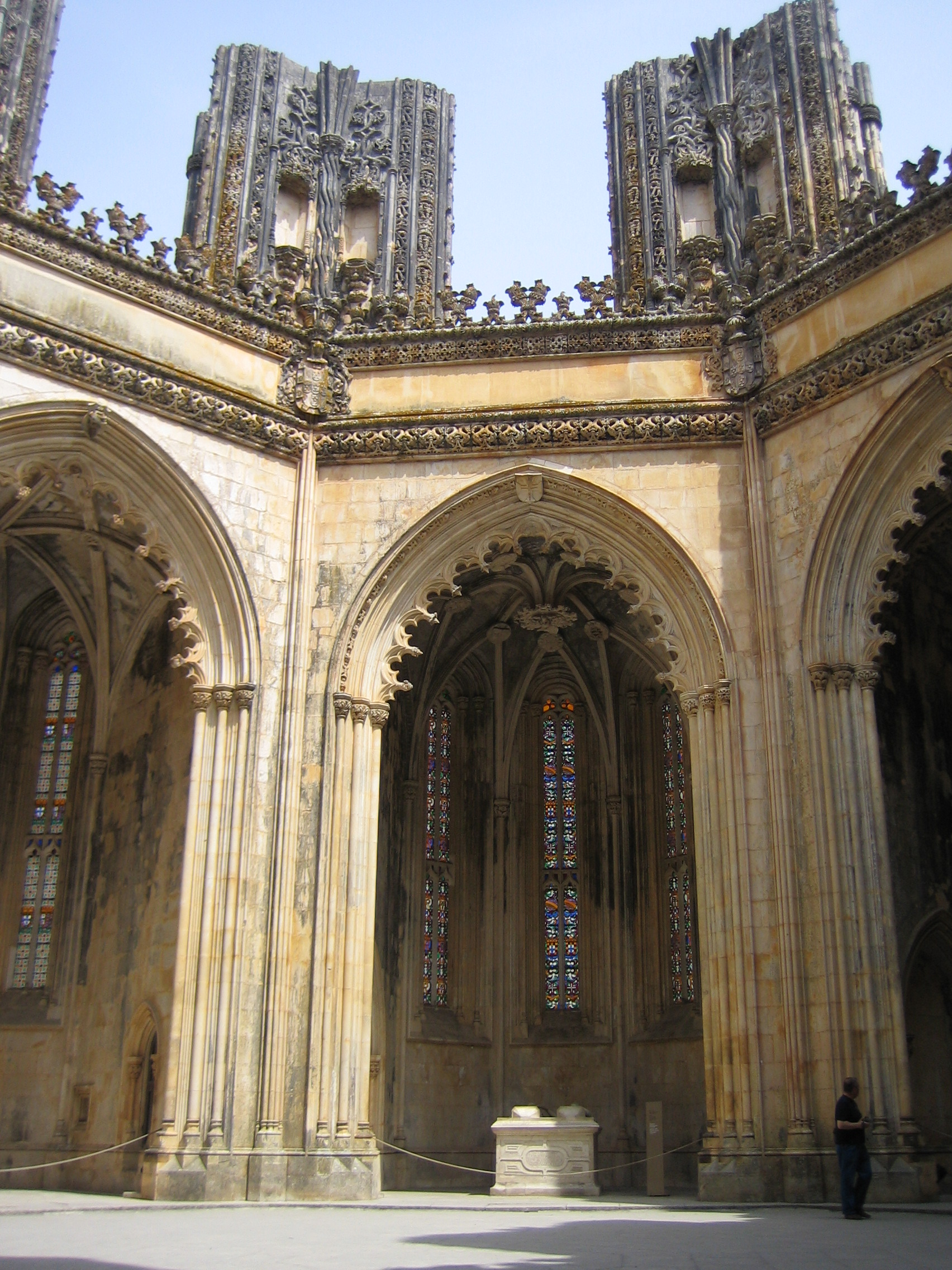 Mosteiro da Batalha (Unfinished Chapels) - Portugal Author: Raph Date: 6 August 2005